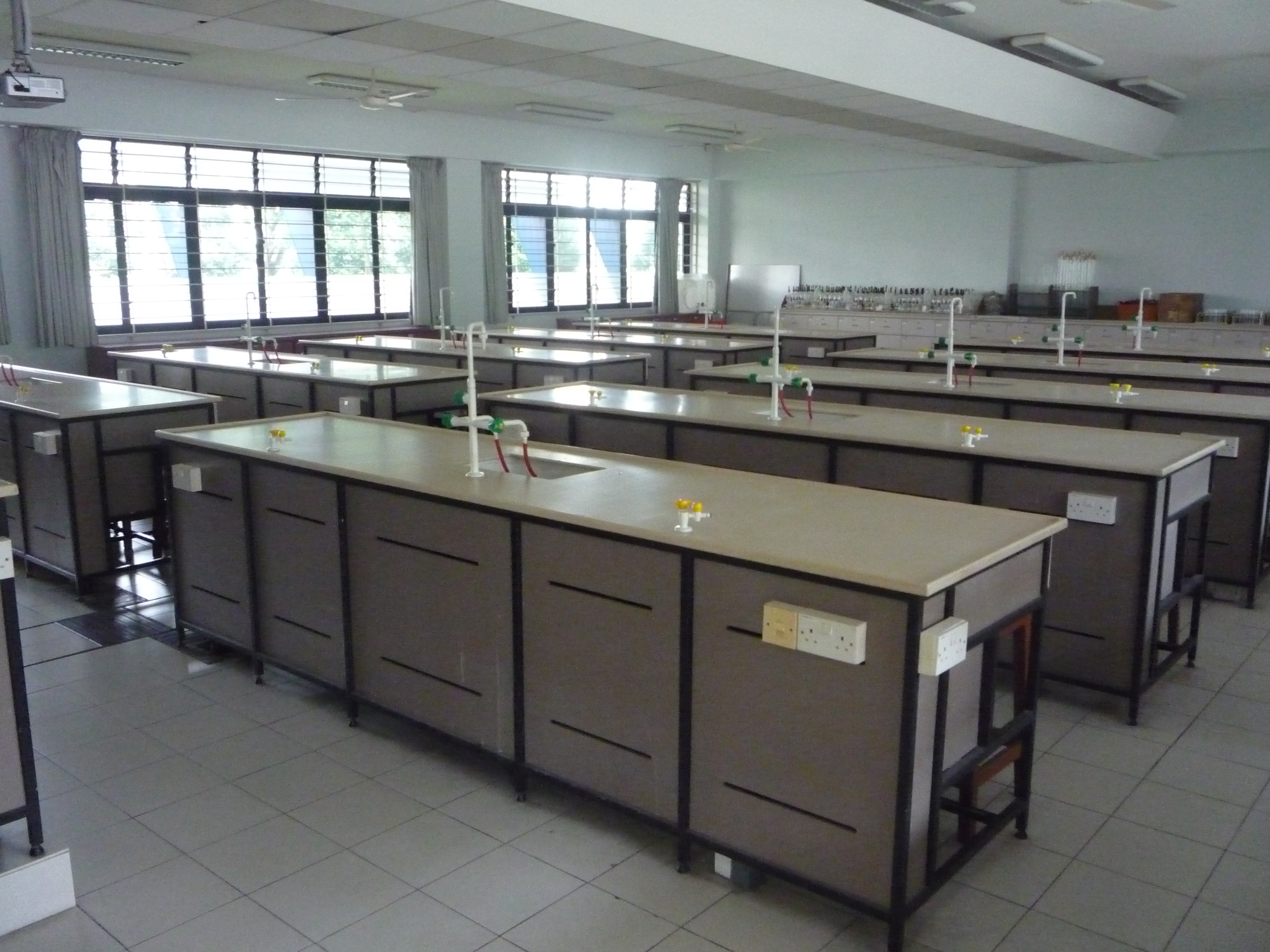 Shows a Chemistry laboratory (1st floor) at Hua Yi Secondary School, 60 Jurong West Street 42, Singapore 649371.